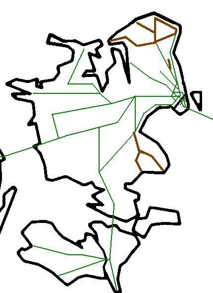 Map over the railway lines on Sjælland (Zealand) with the private railway Hovedstadens Lokalbaner in red.